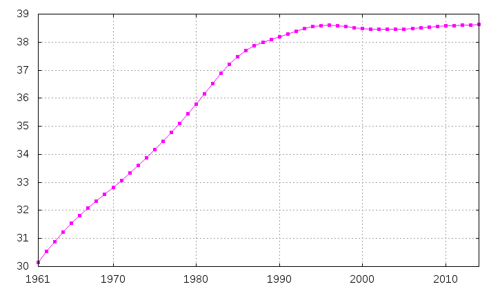 Poland's population (1961-2014). Y-axis : Number of inhabitants in millions.